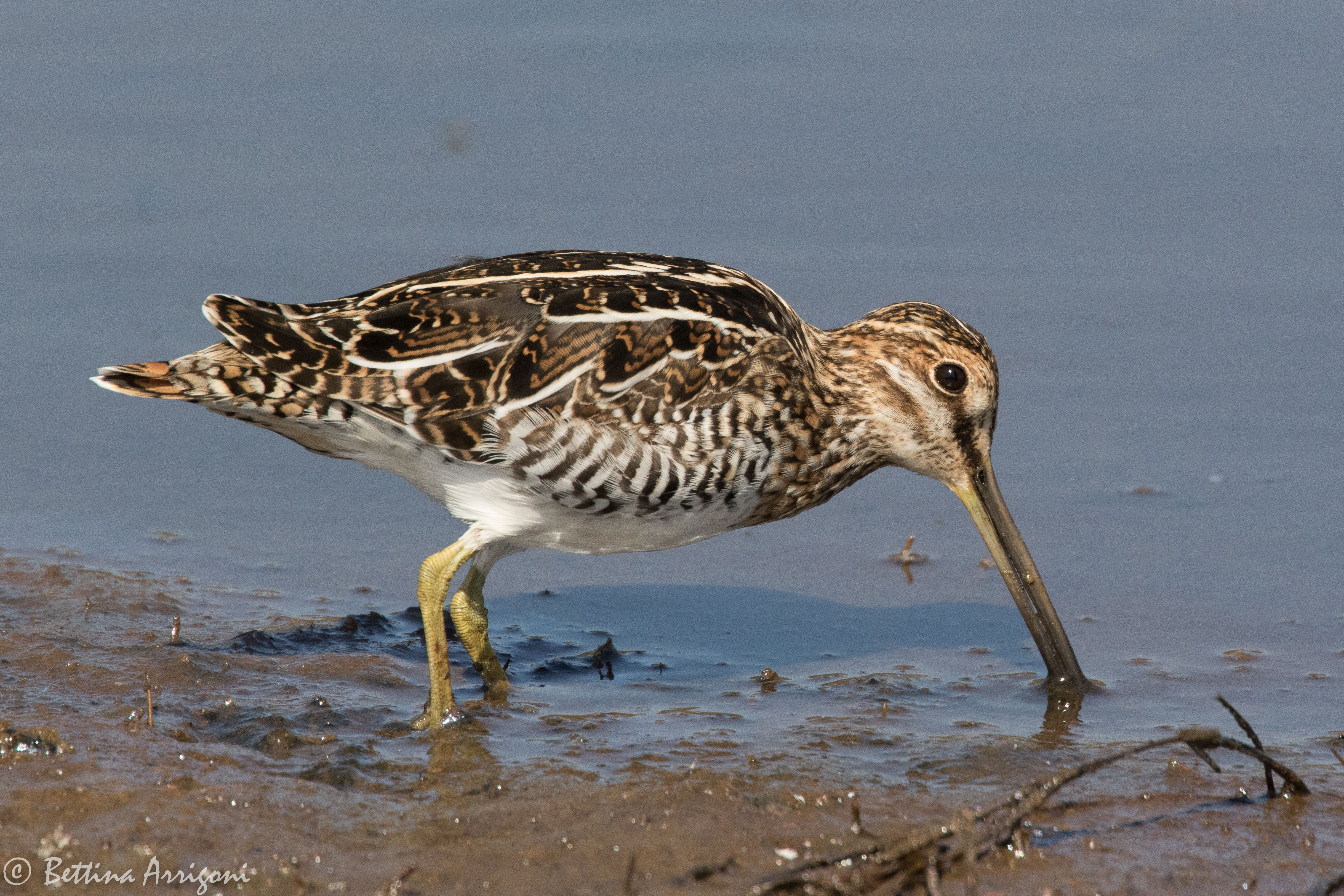 Wilson's Snipe | Bolivar Peninsula | TX|2018-03-25|14-38-06.jpg